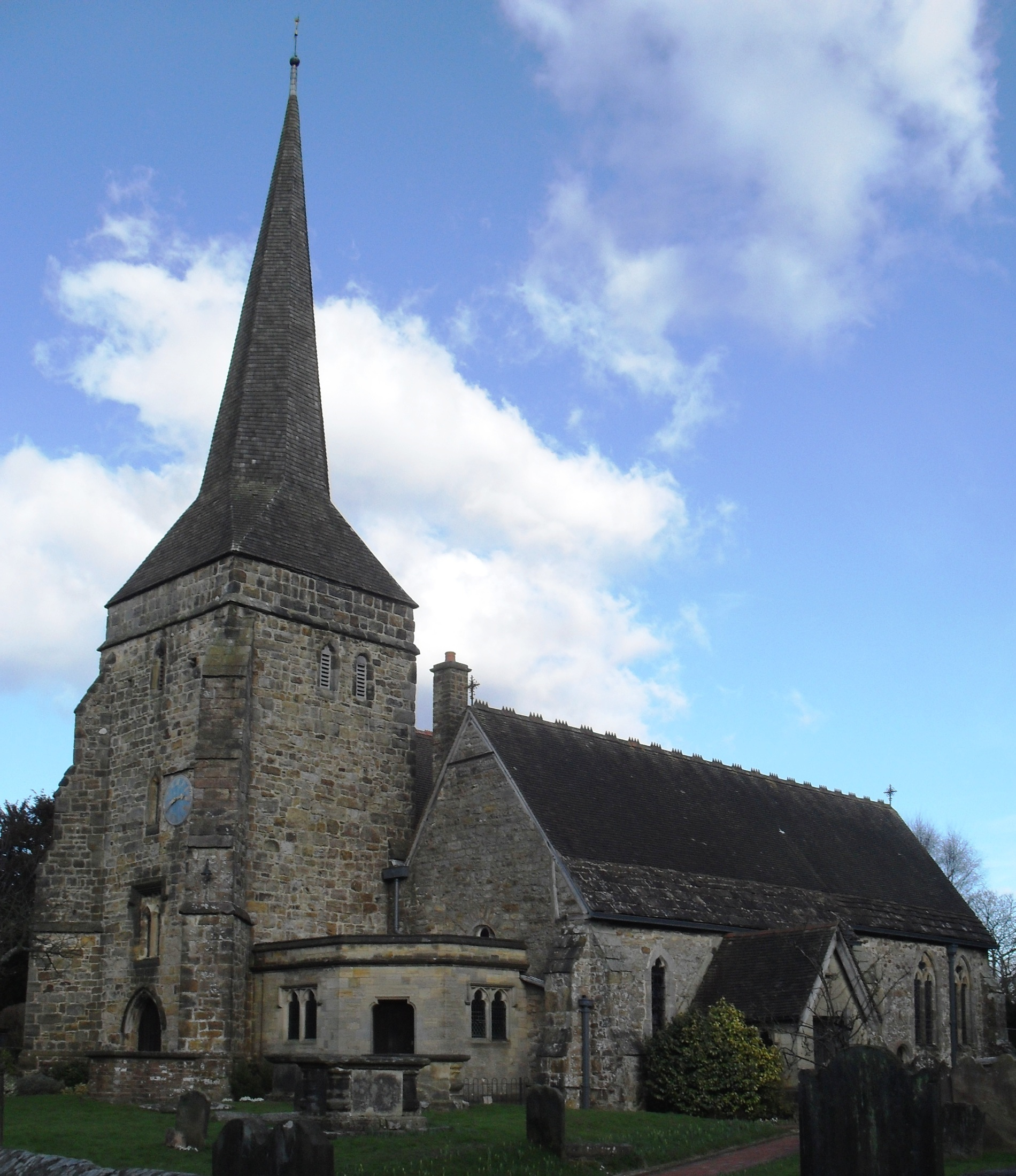 St Margaret's Church, West Hoathly, district of Mid Sussex, West Sussex, England. An Anglican church founded in the 11th century. Listed at Grade I by English Heritage (IoE Code 302844). This view looks from the southwest from the street, over the top of the churchyard wall (not pictured).